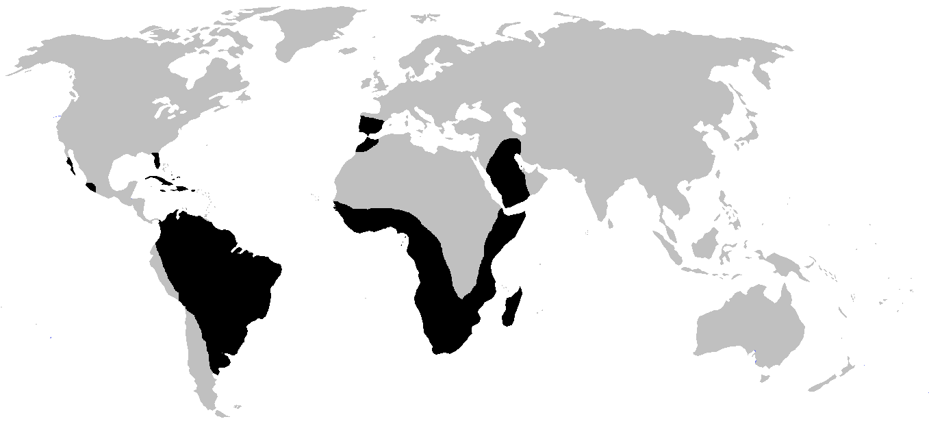 World distribution of Order Amphisbaenia, after data from Cogger, H.G & Zweifel, R.G. (1998). Reptiles & Amphibians". ISBN 0121785602